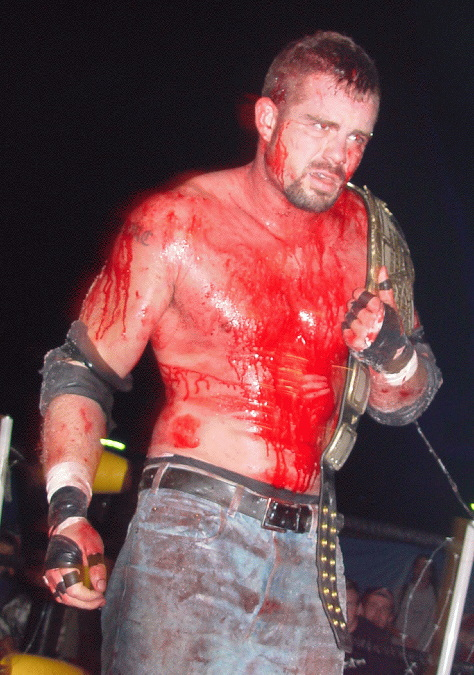 Picture of the Professional wrestler Wifebeater apparently during the Tournament of Death from 13 August 2002.